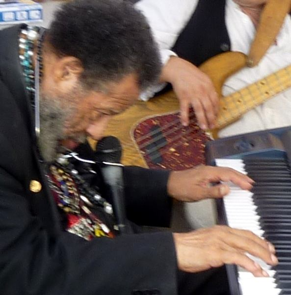 Cornbread Harris performing at the Mill City Farmers Market